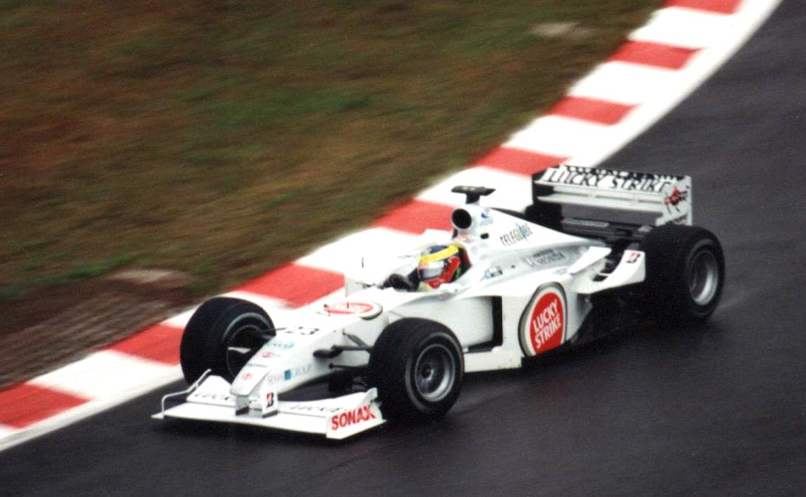 Ricardo Zonta (British American Racing) at the 2000 Belgian Grand Prix